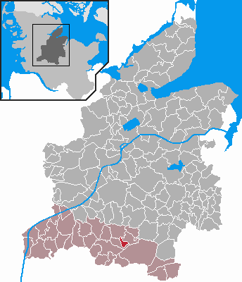 Locator maps of municipalities in Schleswig-Holstein - District Rendsburg-Eckernförde